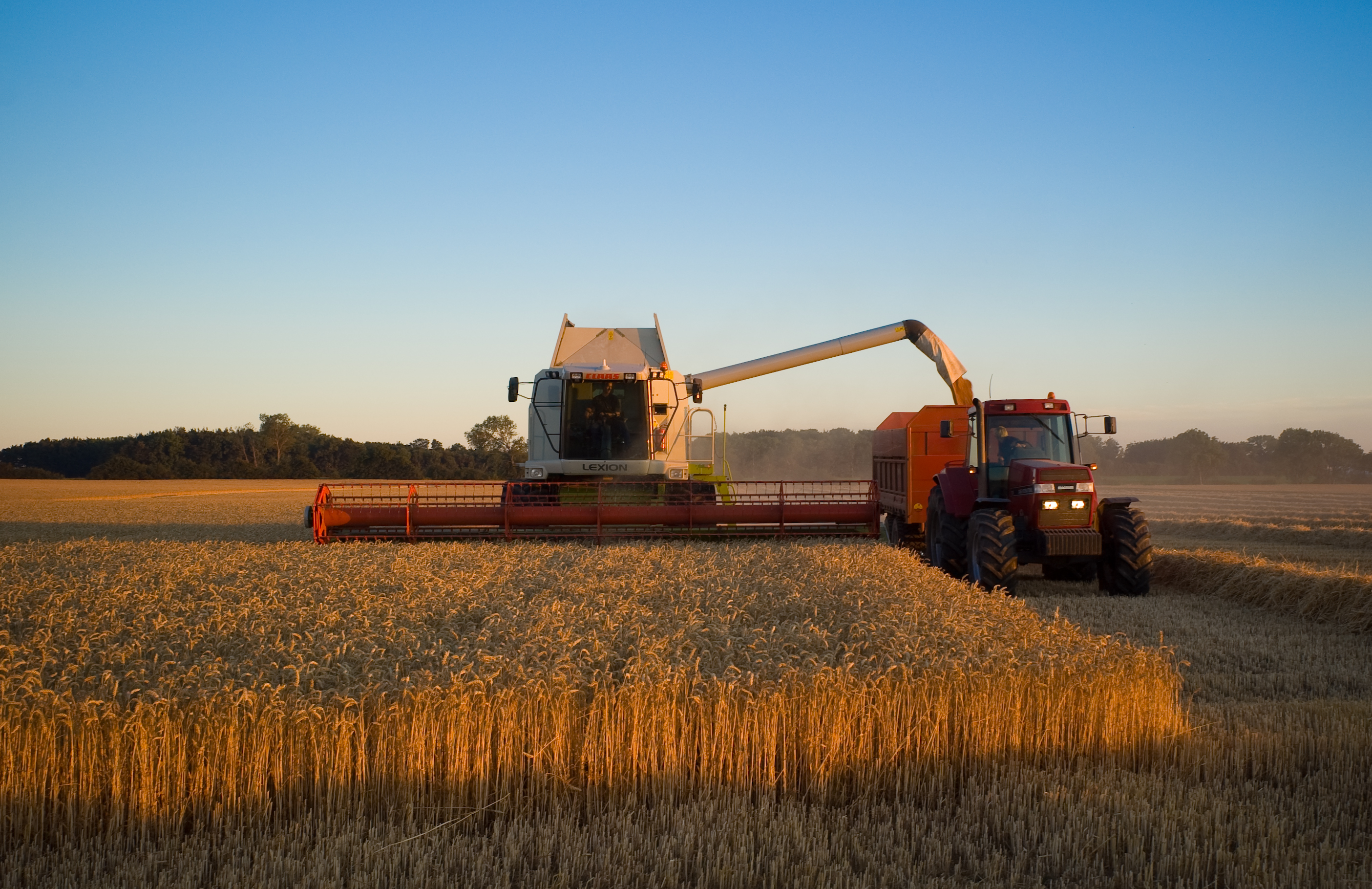 Wheat harvest with a Claas Lexion before sunset near Branderslev, Lolland, Denmark